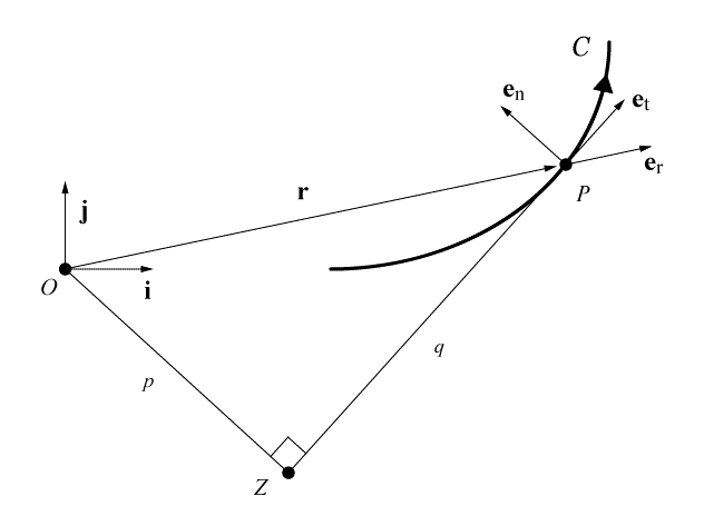 Motion of a particle P in a plane. Demonstration of Siacci's Theorem.